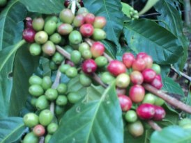 Arabica coffee grown in Yercaud, Tamil Nadu (India)